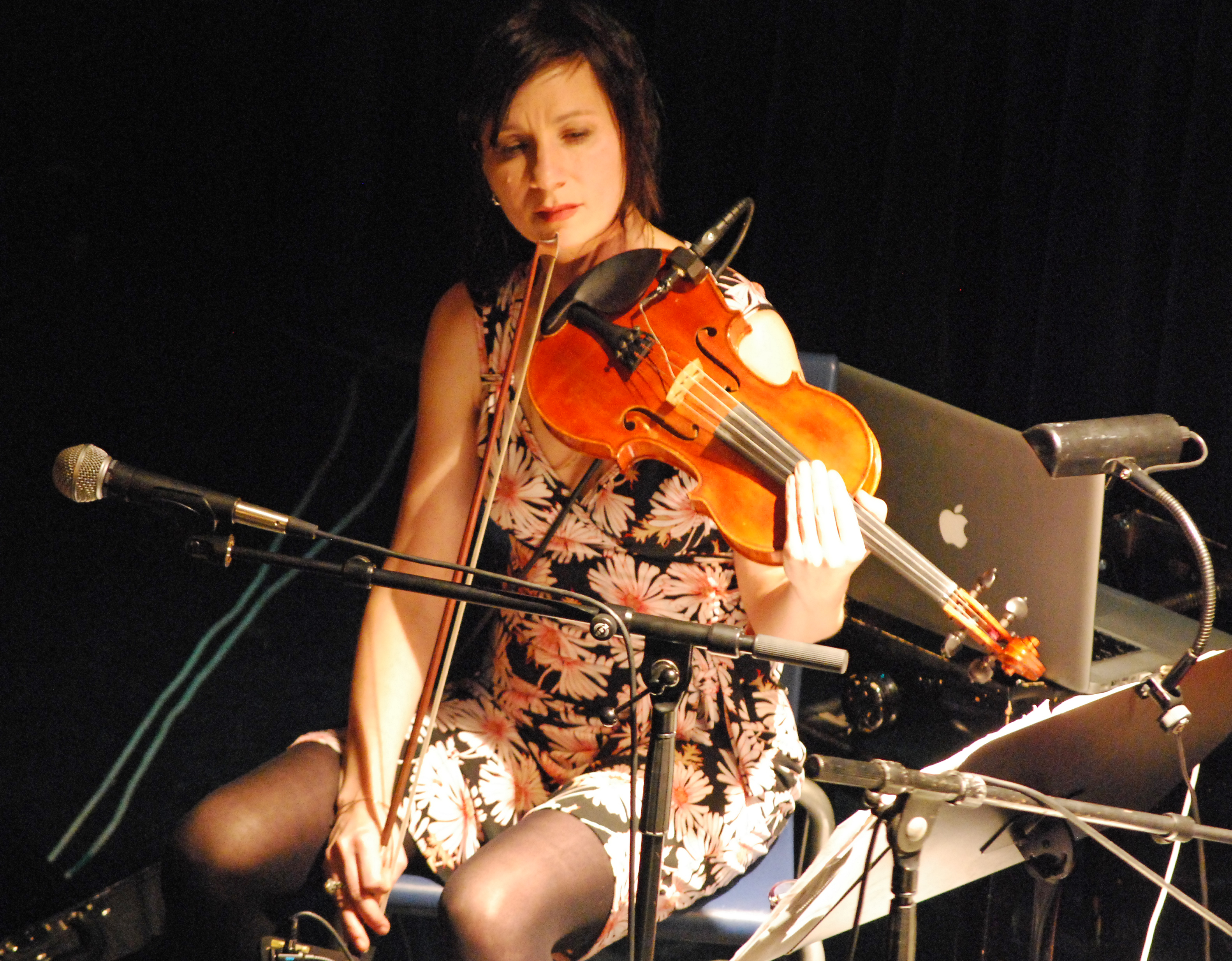 Eszter Balint at a concert with Marc Ribot and Ceramic Dog, Innsbruck 2009